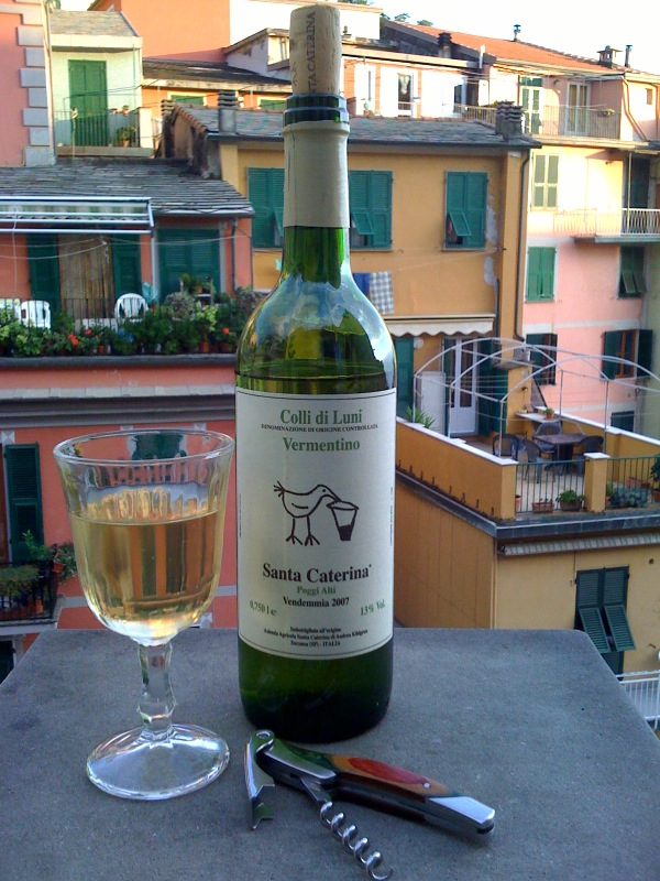 Italian white wine from the Liguria wine region of northwest Italy, made from the Vermentino grape.